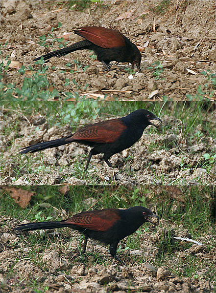 Greater Coucal Centropus sinensis in Kolkata, West Bengal, India.